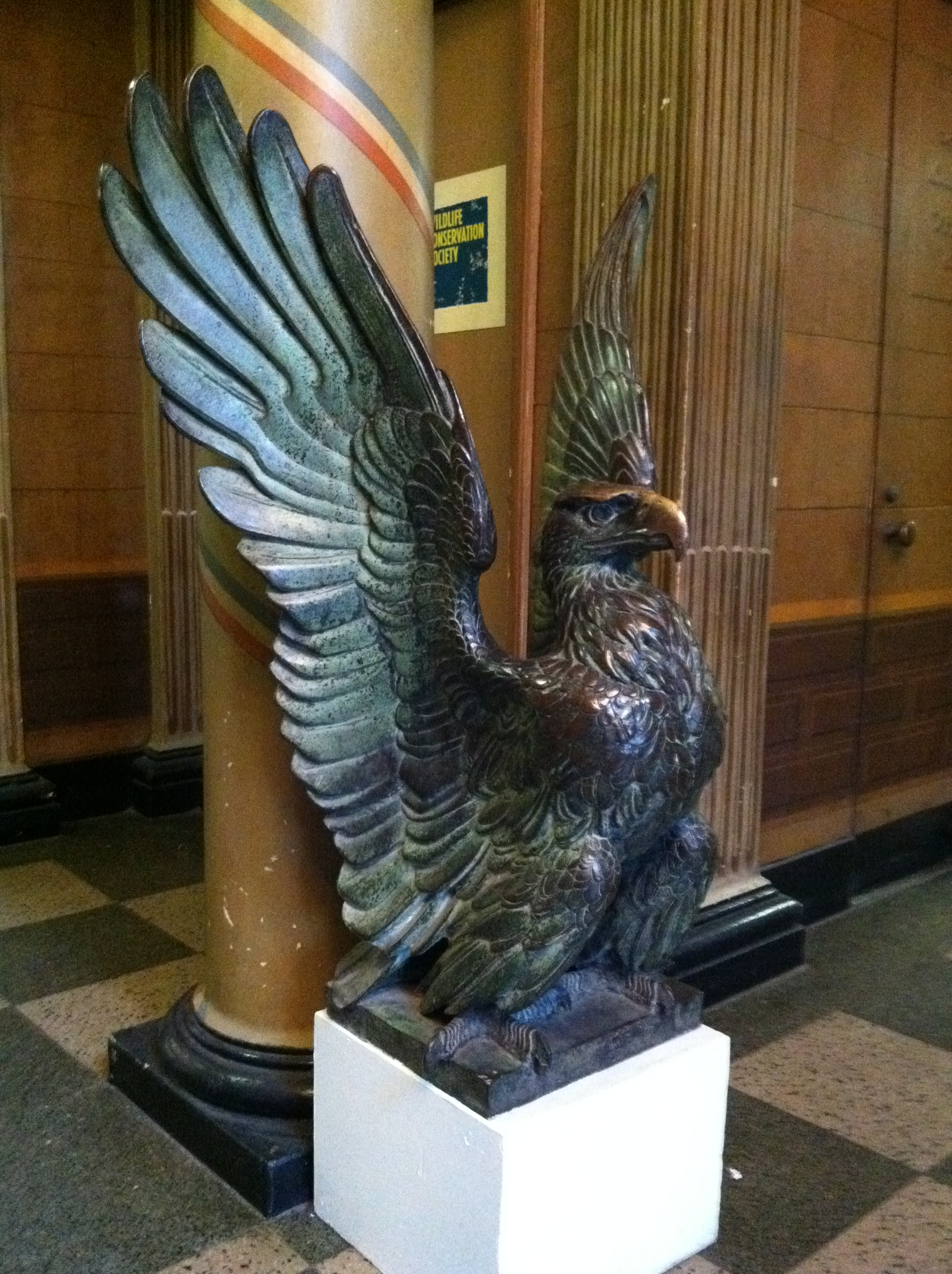 One of the four Adolf Weinman eagles that stood at the base of the large column until 1966